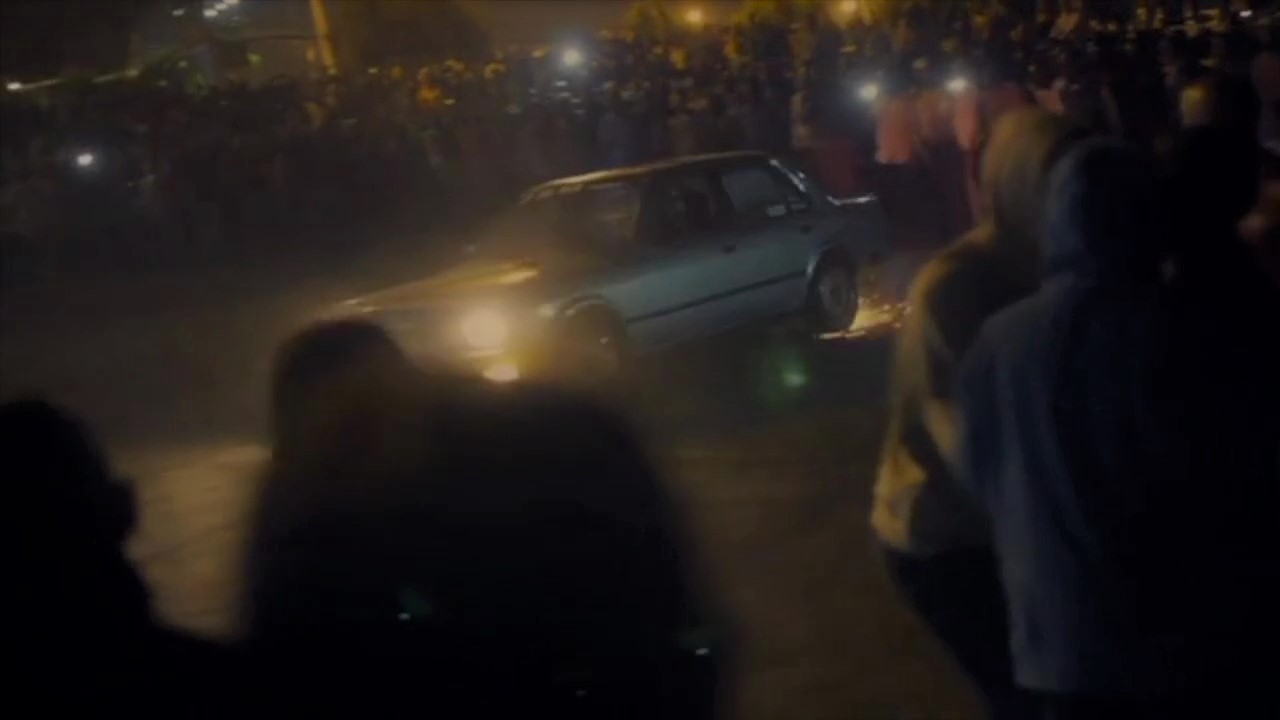 Clip of soweto spinning: an act of defiance, a form of artistic expression (2:27 of original video on Vimeo (